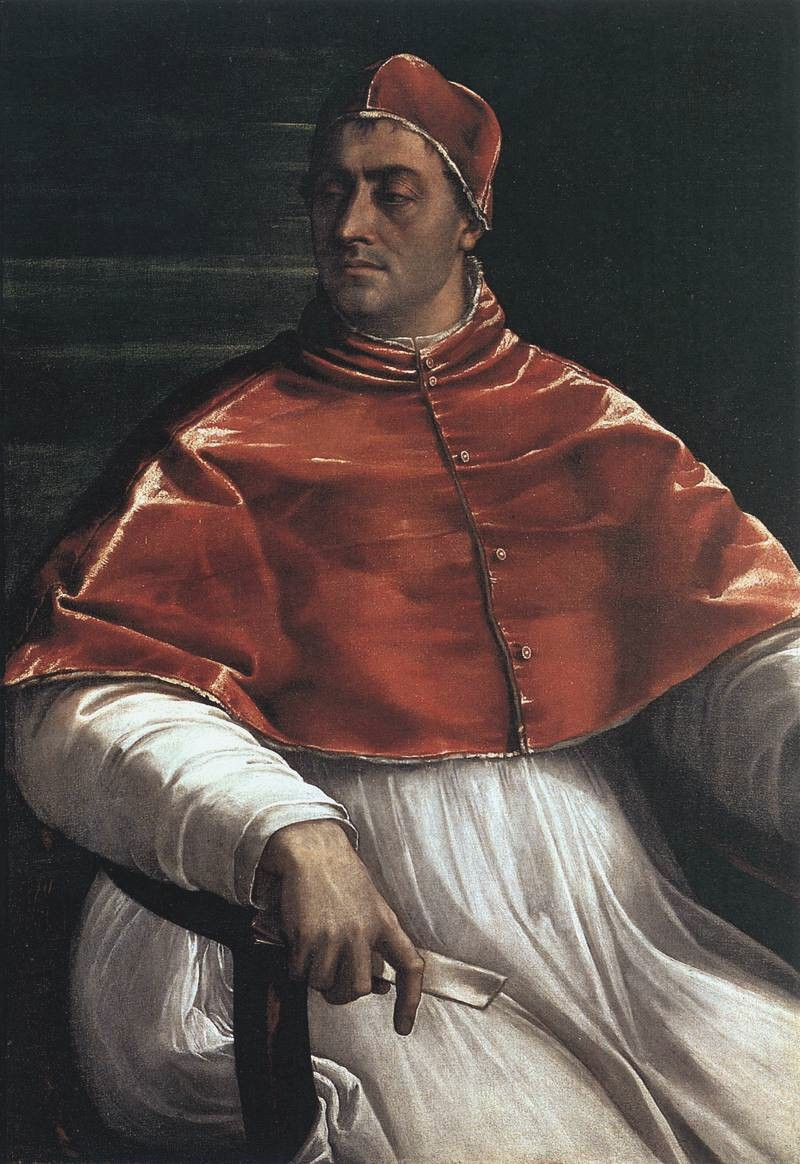 Clemente VII (1526), Museum of Capodimonte, Naples, Italy.